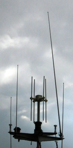 ELBA, Emergency location beacon aircraft, 121,5 MHz, 156,8 MHz